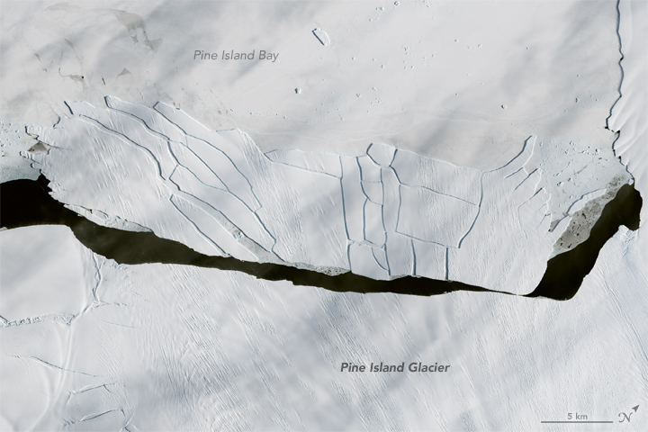 Radar imagery captured by the European Space Agency’s Sentinel-1 on September 23, 2017, showed an early view of the new iceberg.